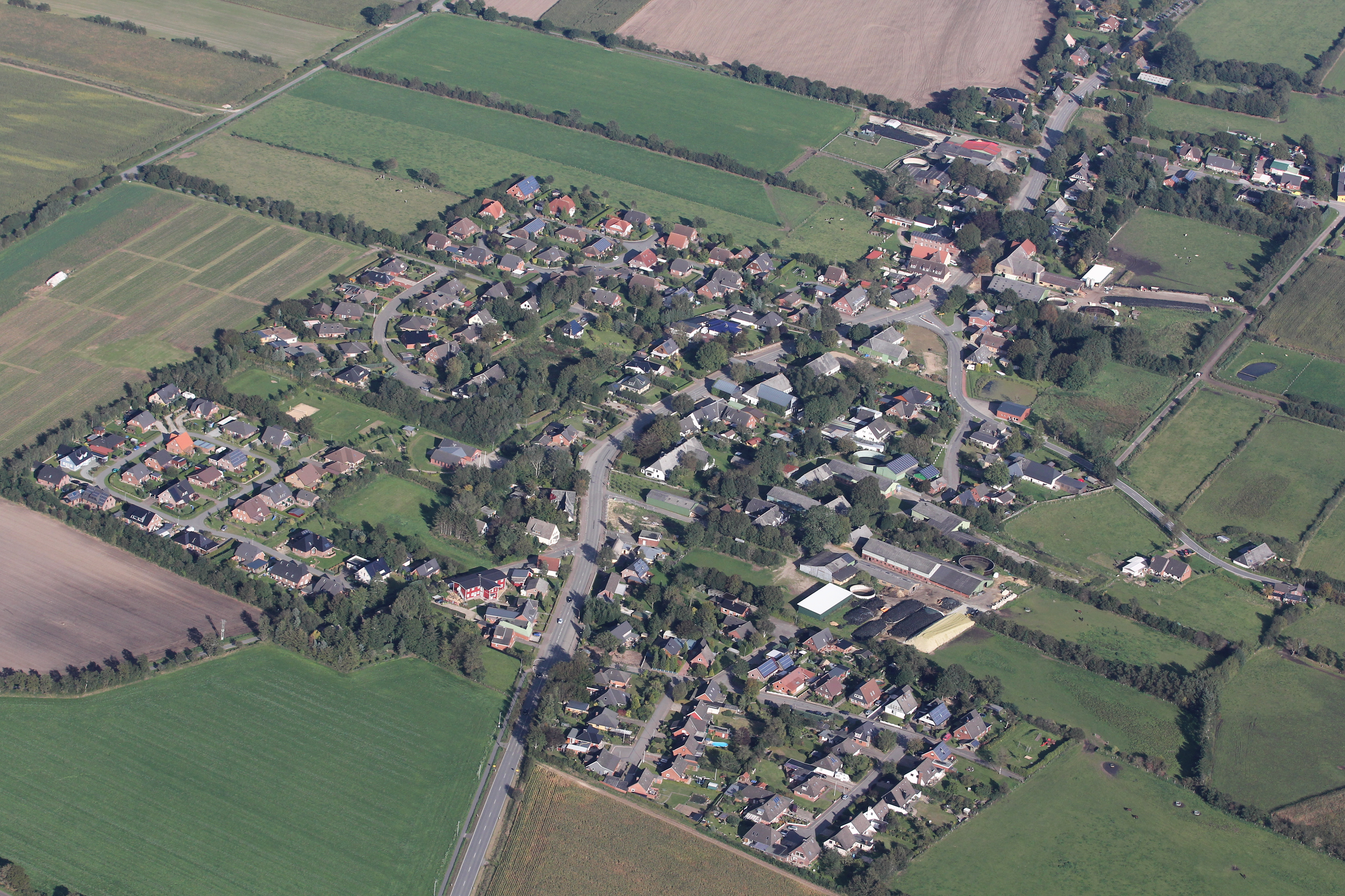 A aerial photograph of a unidentified location.